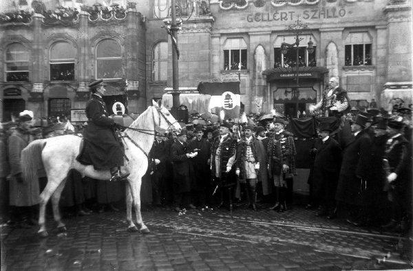 Former Admiral Miklós Horthy, after leading the Hungarian National Army into the Hungarian capital, is received by Budapest city officials in front of the Hotel Gellert on November 16, 1919.